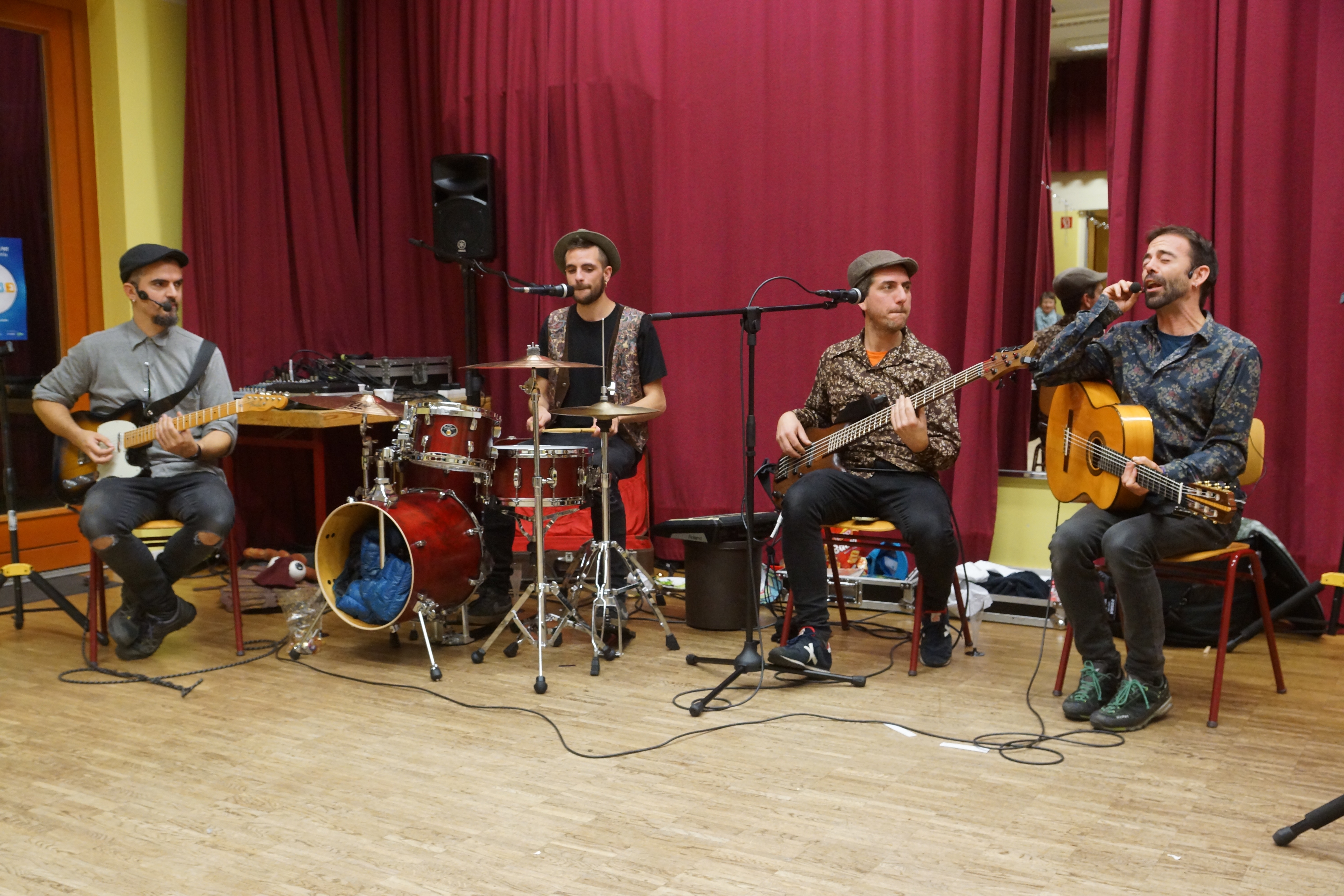 Hamburg (Lokstedt), Germany: The Barcelonese band Xiula a a Xmas concert in Hamburg